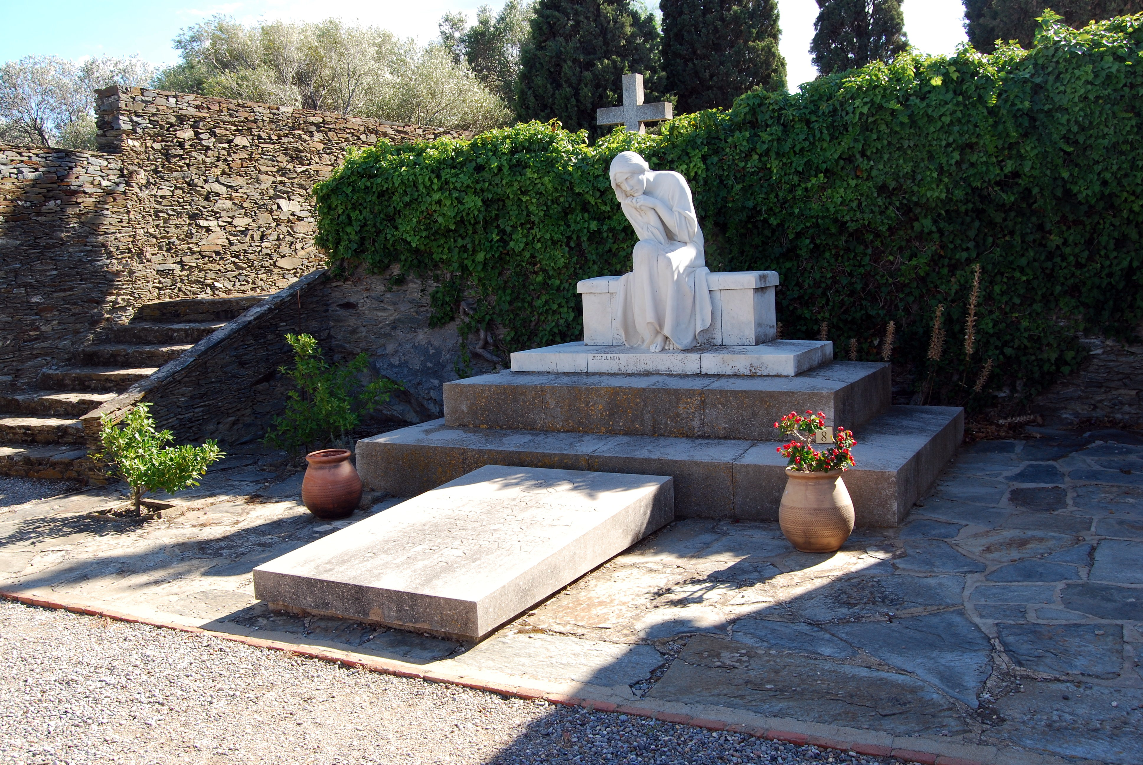 Frederic Rahola i Trèmols's tomb at Portlligat's cemetery.